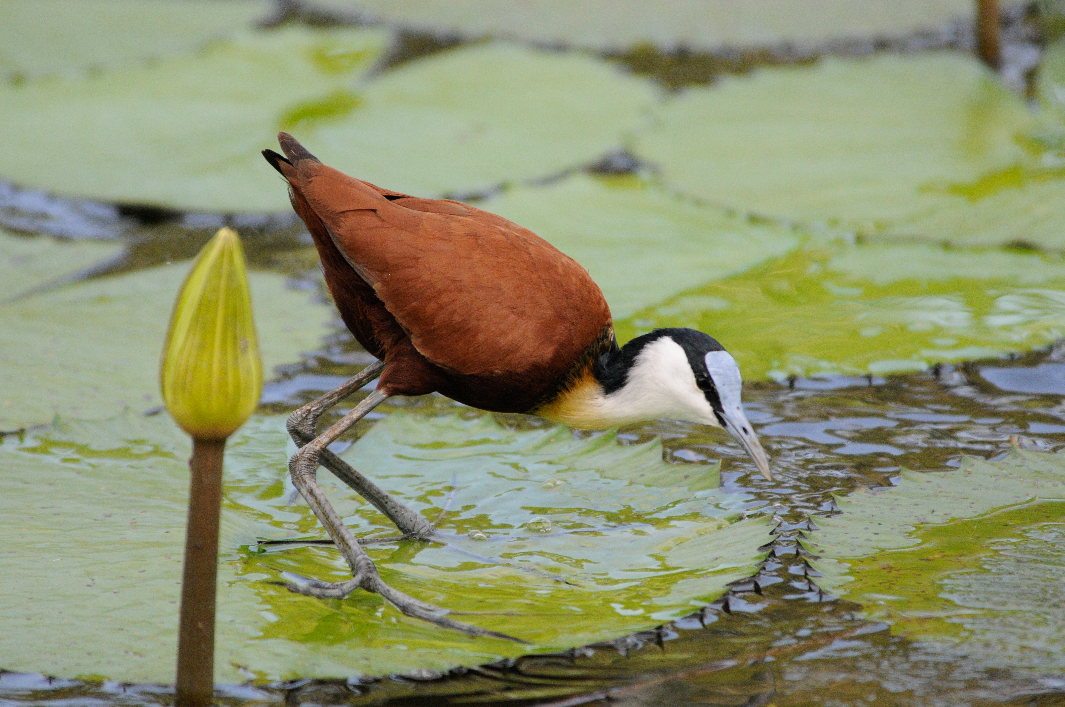 African Jacana (Actophilornis africanus) on Nymphaea lotus in Kruger National Park, South Africa.